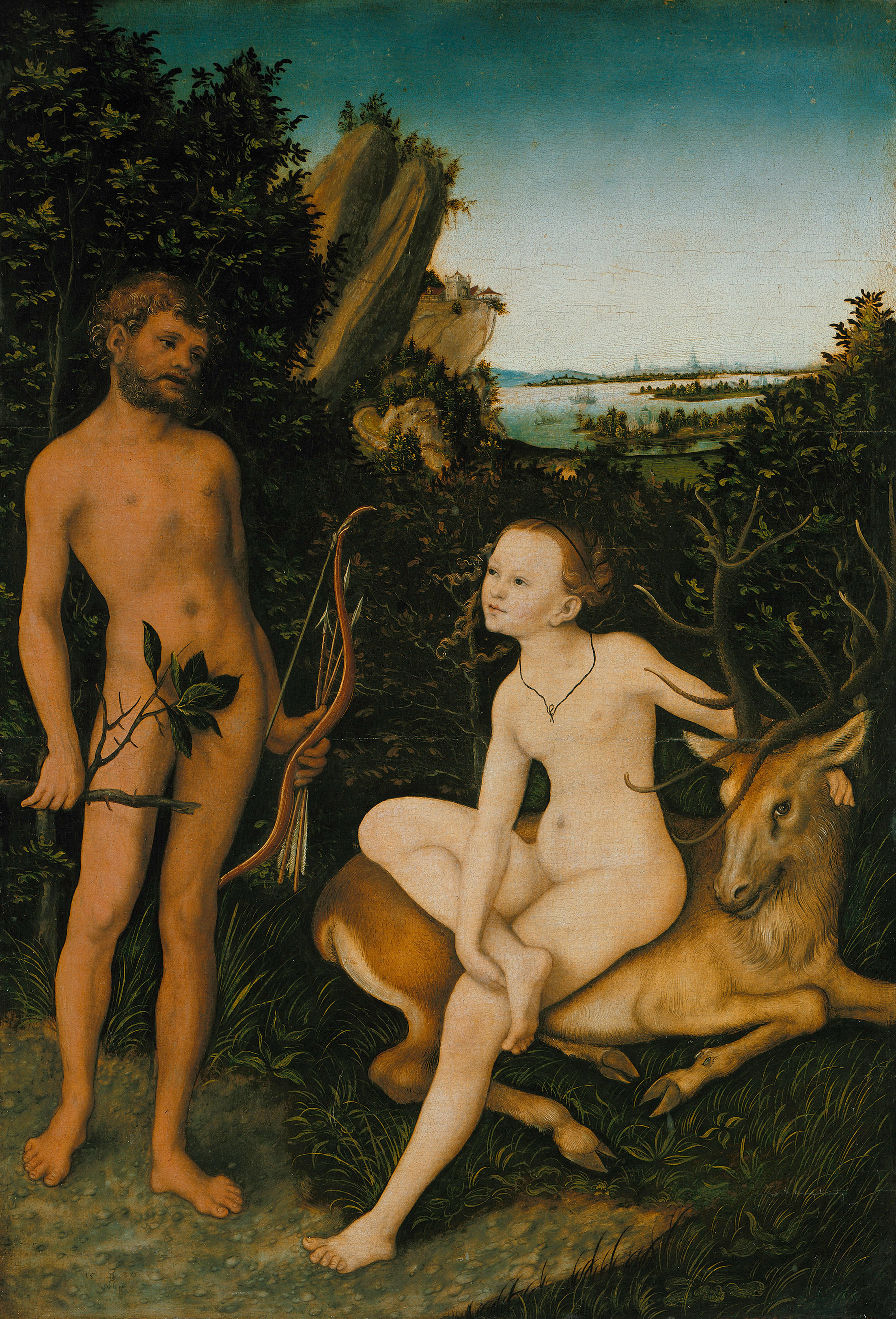 Apollo and Diana in forest landscape